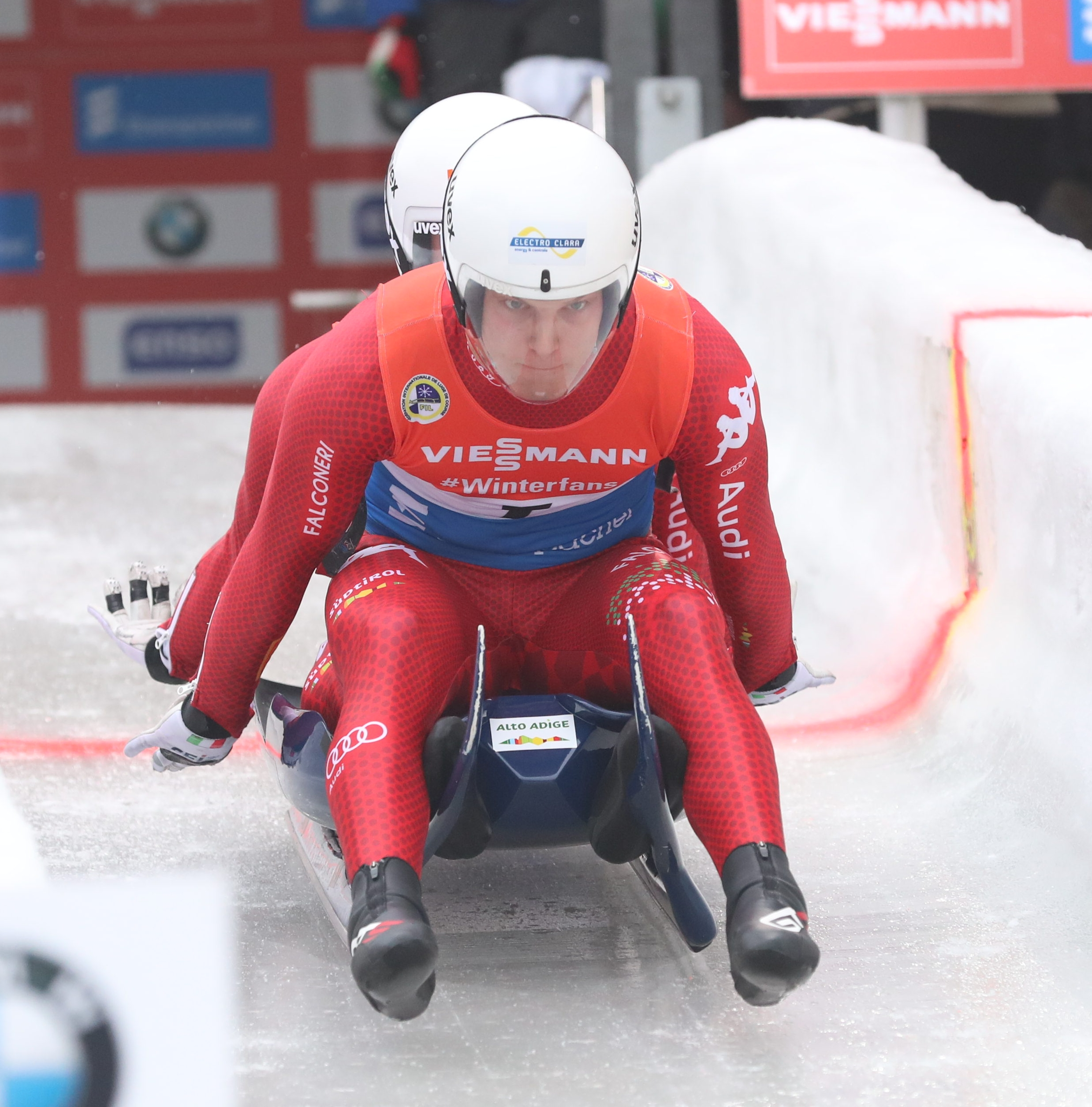 Doubles World Cup race at the 2018/19 Luge World Cup in Altenberg